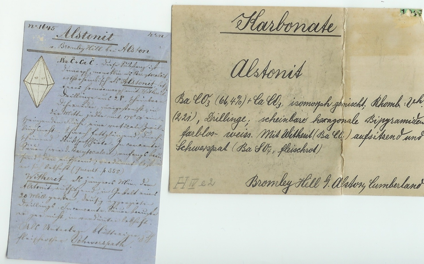 Alstonite, Witherite Locality: Brownley Hill Mine (Bloomsberry Horse Level), Nenthead, Alston Moor District, North Pennines, North and Western Region (Cumberland), Cumbria, England, UK (Locality at ) Size: small cabinet, 9.7 x 4.1 x 3.7 cm Alstonite with Witherite This rich specimen dates back to , I would expect, the heyday here in the mid-1800s. It is covered by very sharp, alstonites to 6mm. Atop is a 2-cm cluster of witherite, as well. I think the orange dot atop is the remnant of a very old glue label. In any case, its surprisingly an attractive specimen, although there is some value to the even more attractively prepared, and exhaustively descriptive, old labels!